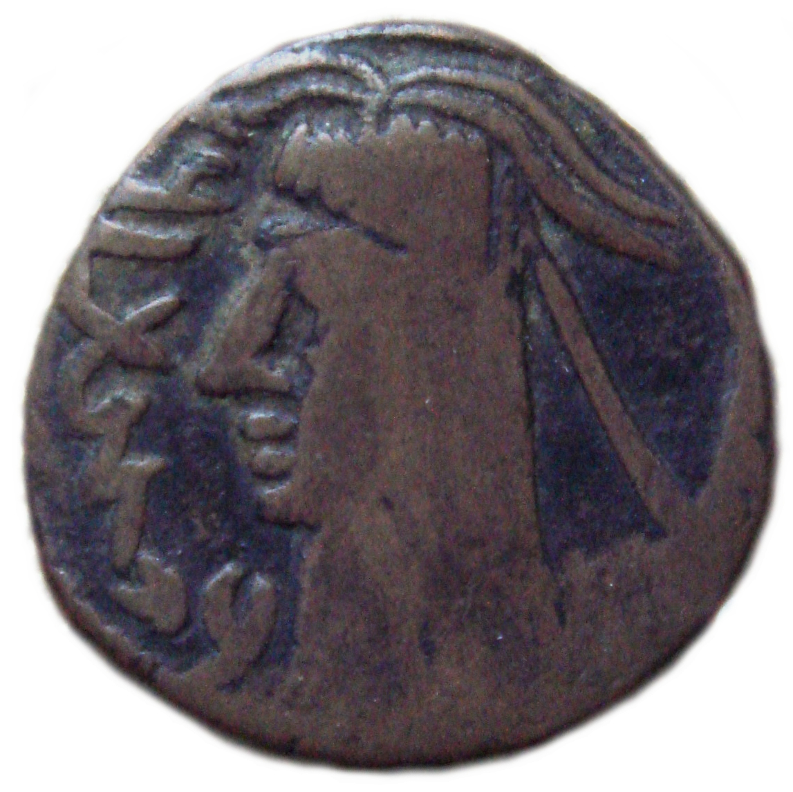 Sogdian coin, 6th century, from Kesh (compare with this coin).